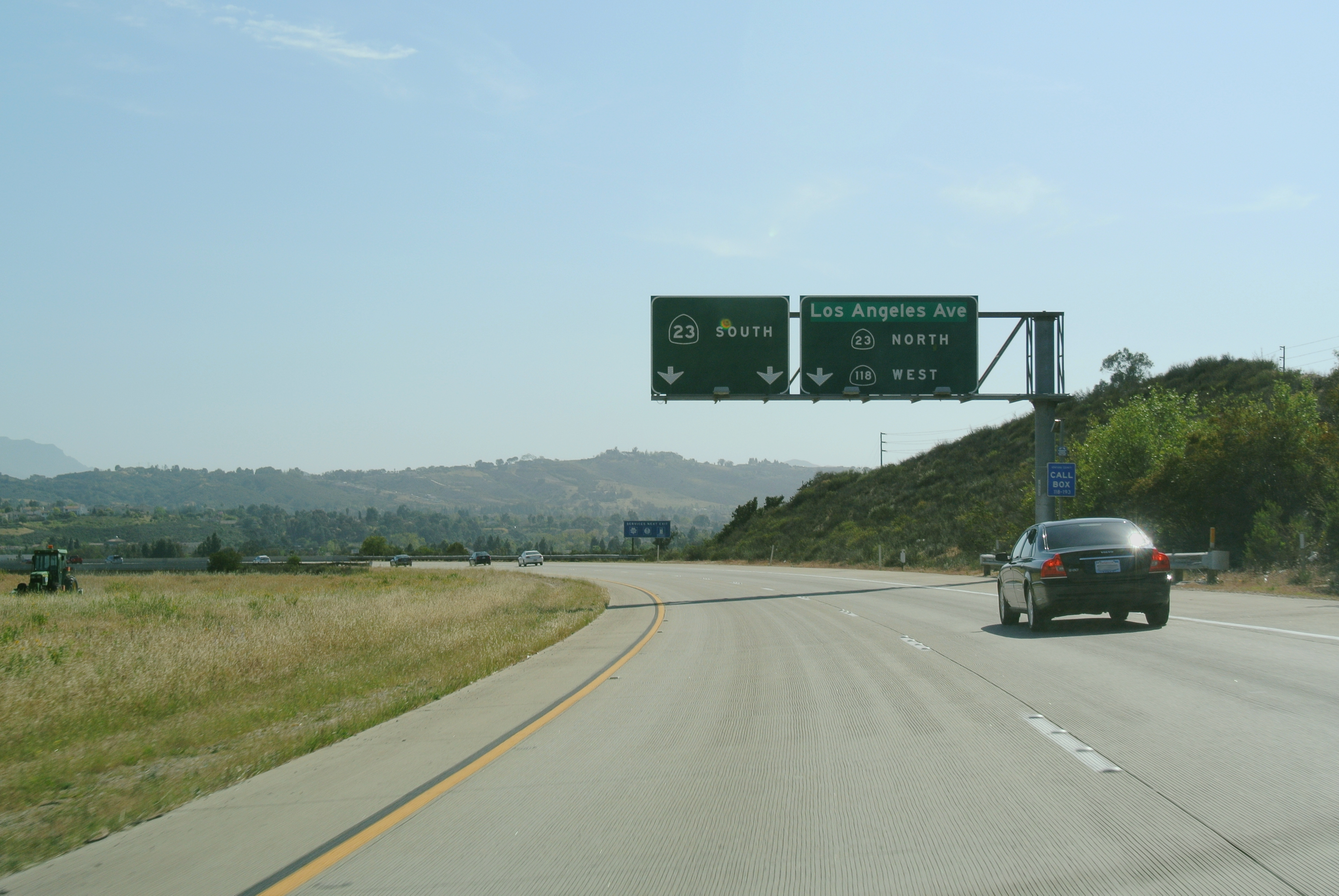 California SR 118 seen towards south just before the intersection with SR 23 in Moorpark